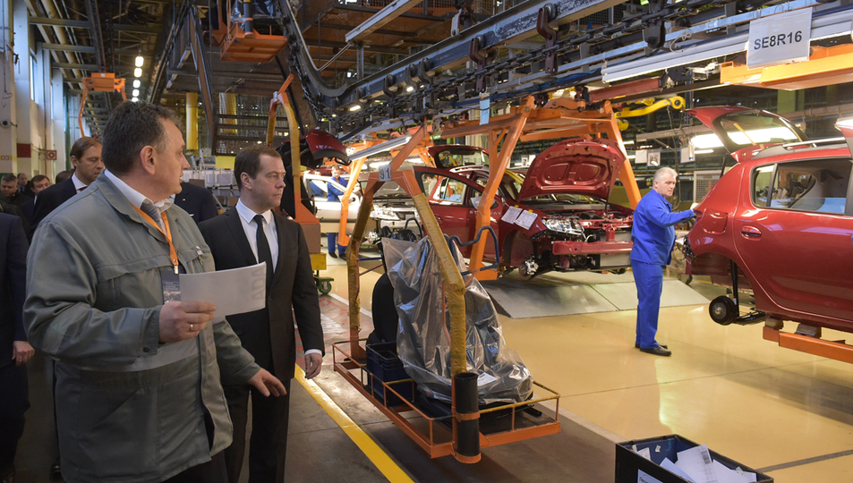 A visit to "AvtoVAZ" - January 22, 2016